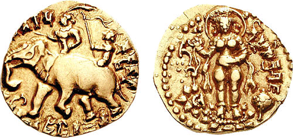 Kumaragupta I circa 414-455 CE. Elephant-rider type. "Kumaragupta, who has destroyed his enemies and protected his client kings, is victorious over his foes", Kumaragupta as mahout on an elephant jogging at a brisk pace to left, an attendant holds a parasol over him / "The elephant of king Mahendra", the goddess Lakshmi, nimbate, standing facing on open lotus, holding lotus plant and cornucopiae; conch shell to right.